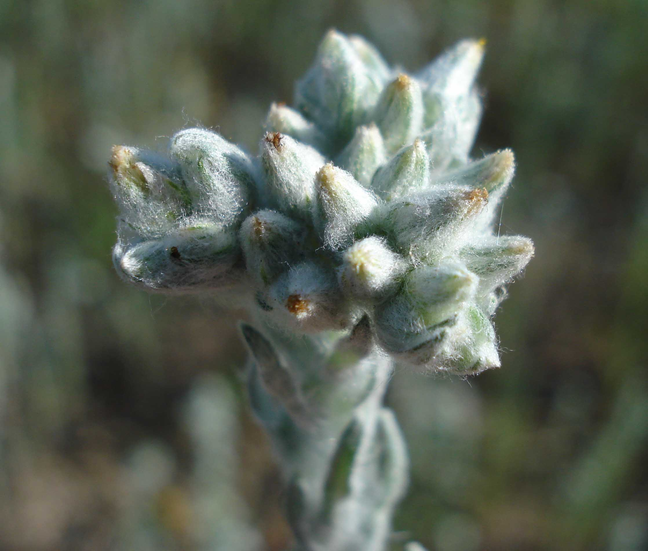 Filago arvensis (Unterfranken, Germany)